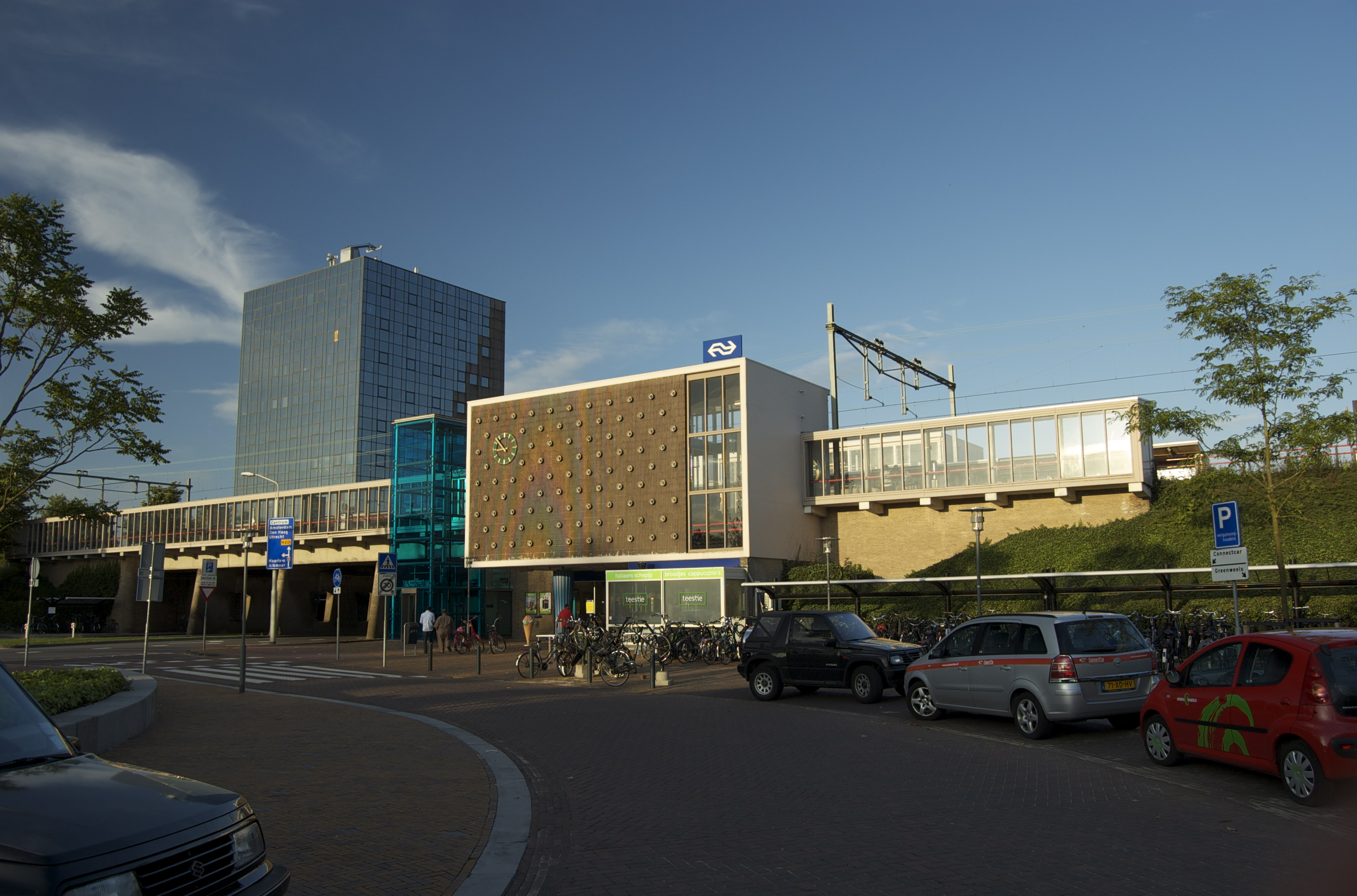 The trainstation of Heemstede-Aerdenhout